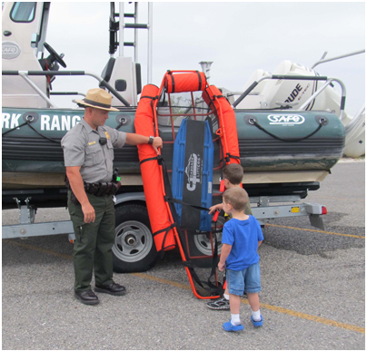 Park Ranger at Amistad National Recreation Area near Del Rio, Texas, at the Upper Parking Area of the Diablo East Marina on National Junior Ranger Day